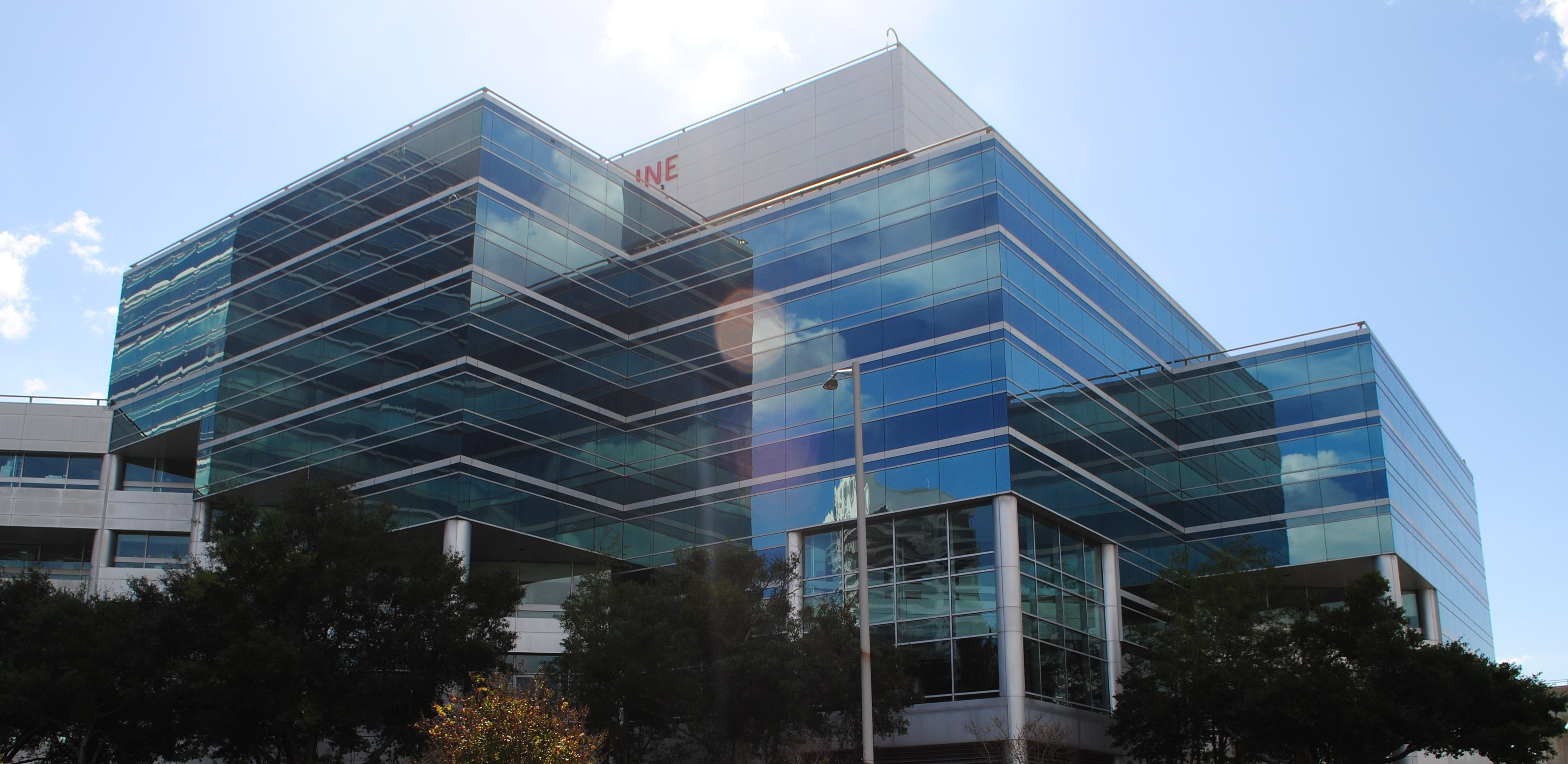 Interline Brands, owner of SupplyWorks and Wilmar, in Jacksonville